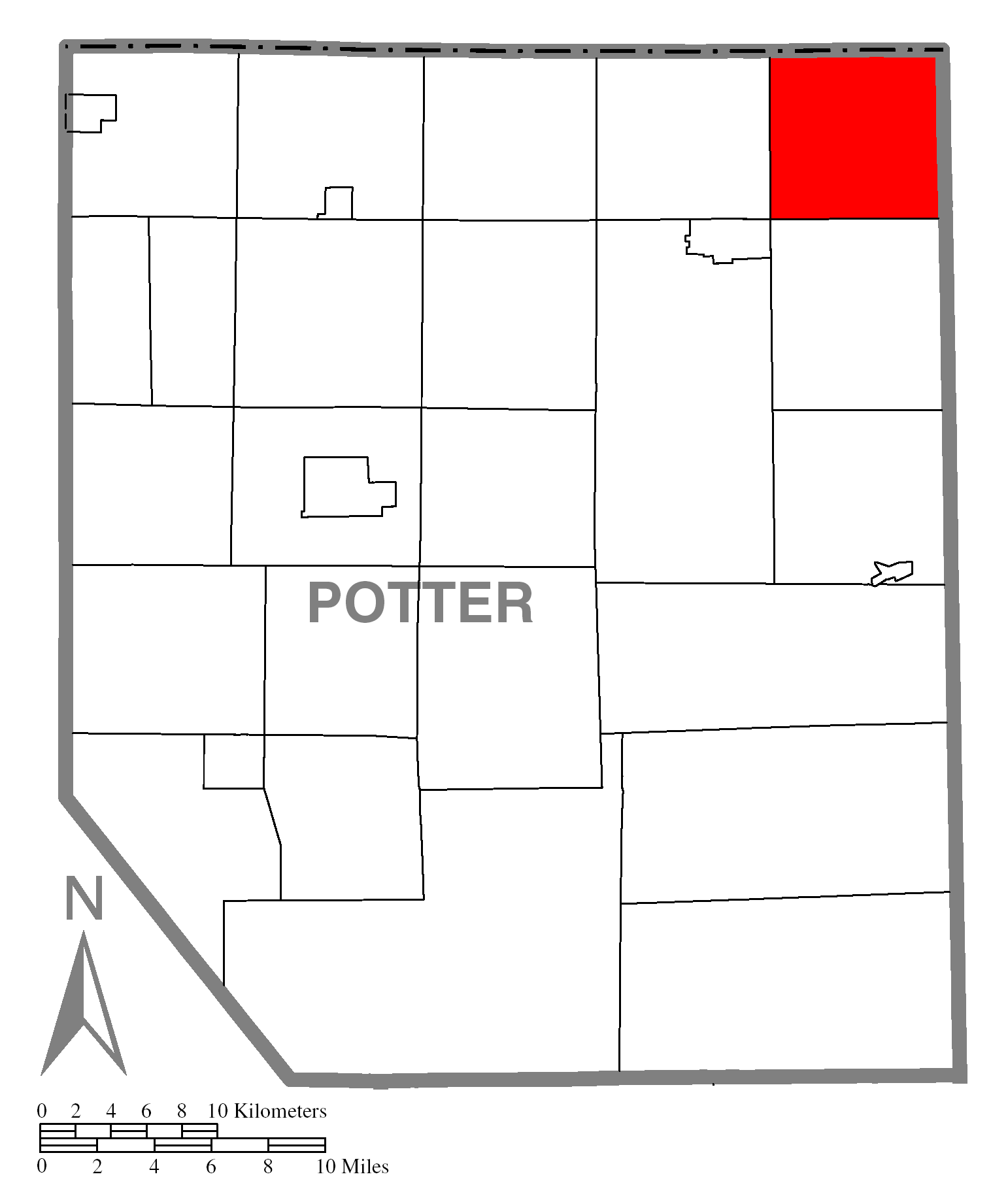 A map of Potter County showing Harrison Township, Pennsylvania (alternate) highlighted on the map.